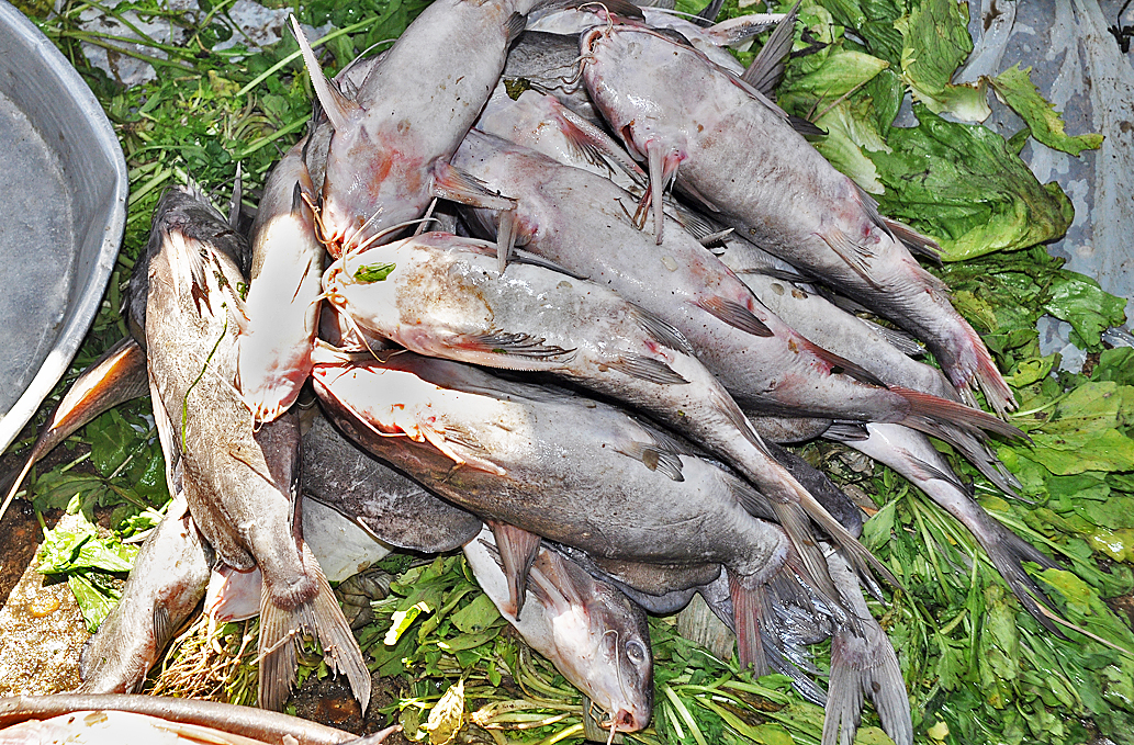 Synodontis-catfish in the Cairo fish market, Egypt.